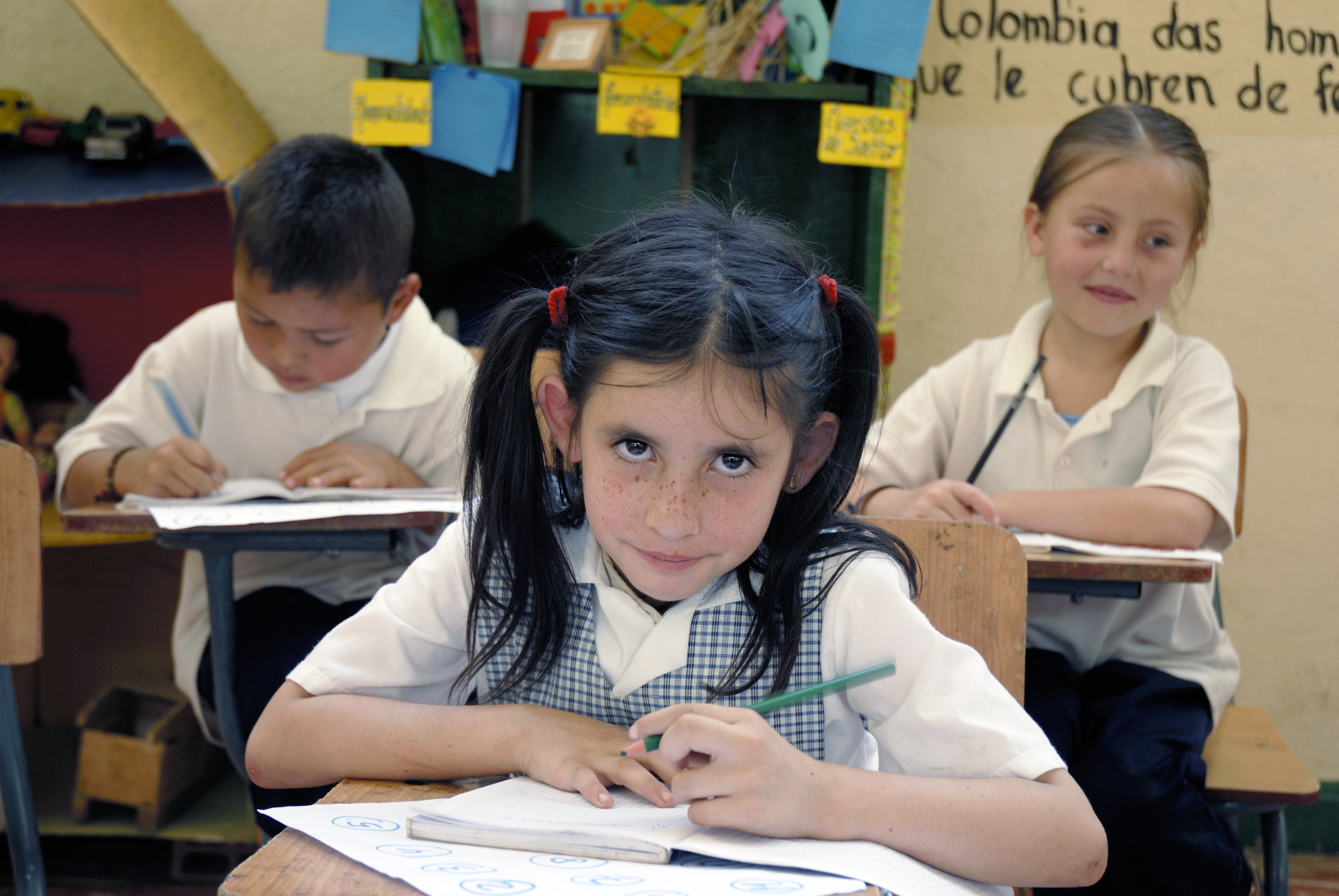 (2011 Education for All Global Monitoring Report) - School children in Florida (Valle), in ColombiaRomână: Raportul de monitorizare „Educație pentru toți”, 2011: Elevi din Florida (Valle), Columbia